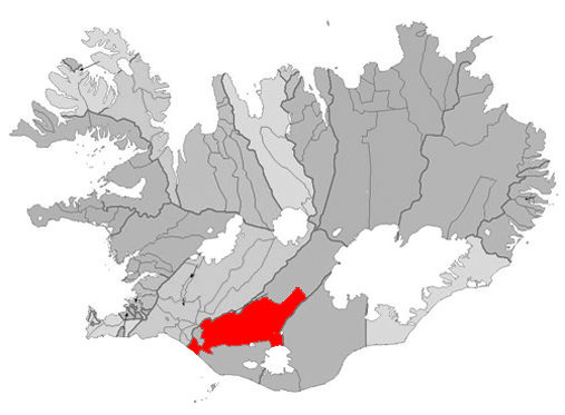 Based on Municipalities of Iceland.png.